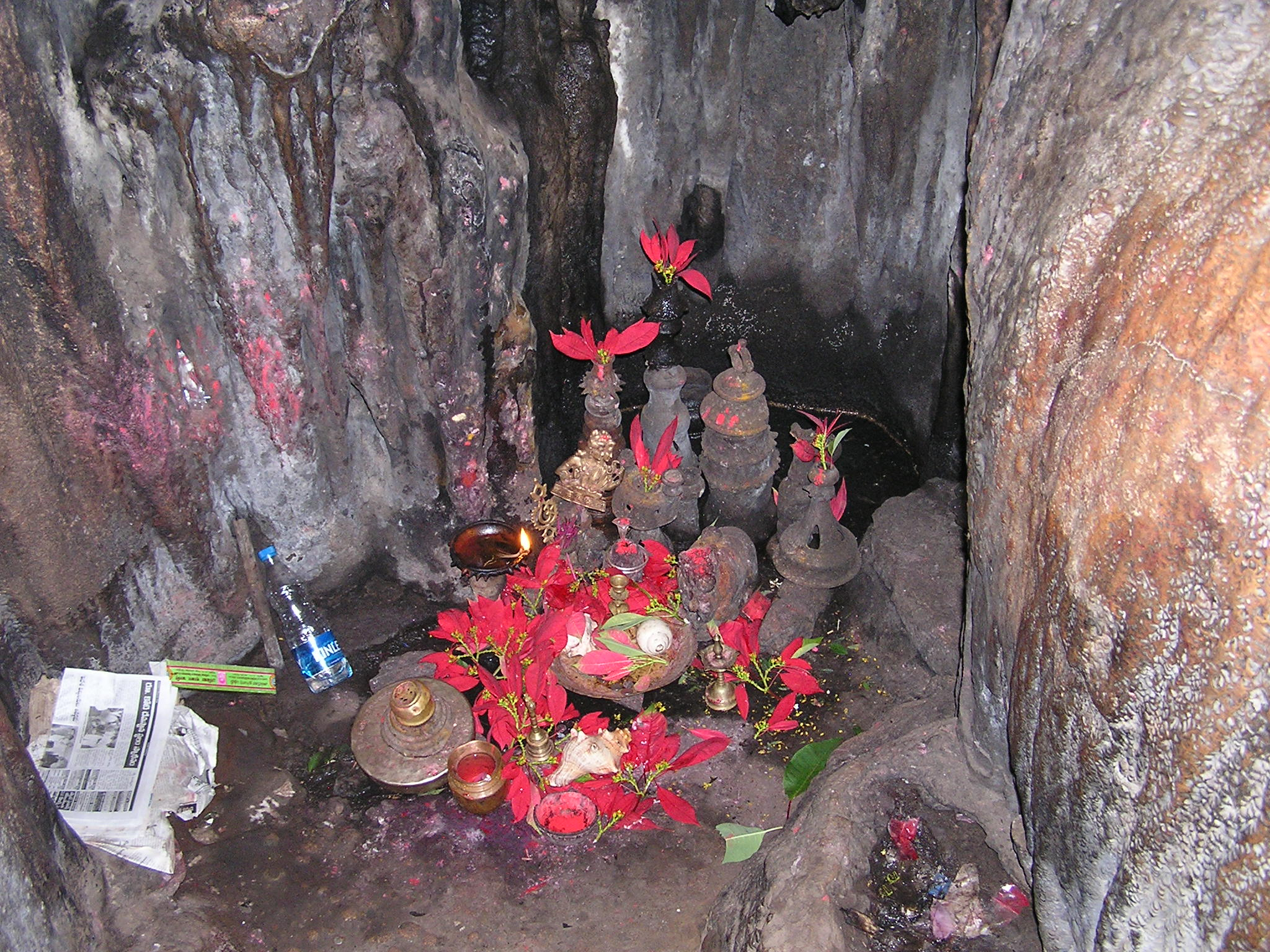 Picture of the Borra Caves Information Board